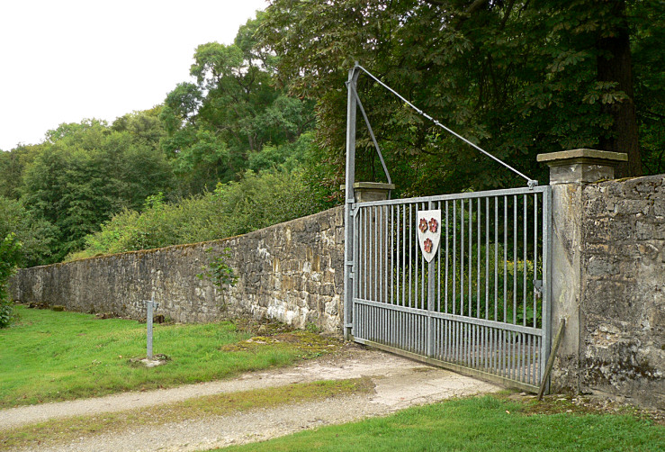 Wall of the Saupark Springe wildlife park, Kleine Deister, Lower Saxony, Germany